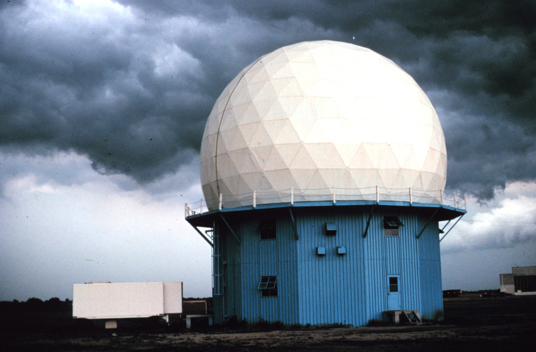 NSSL's first Doppler Weather Radar located in Norman, Oklahoma. 1970's research using this radar led to NWS NEXRAD WSR-88D radar network.